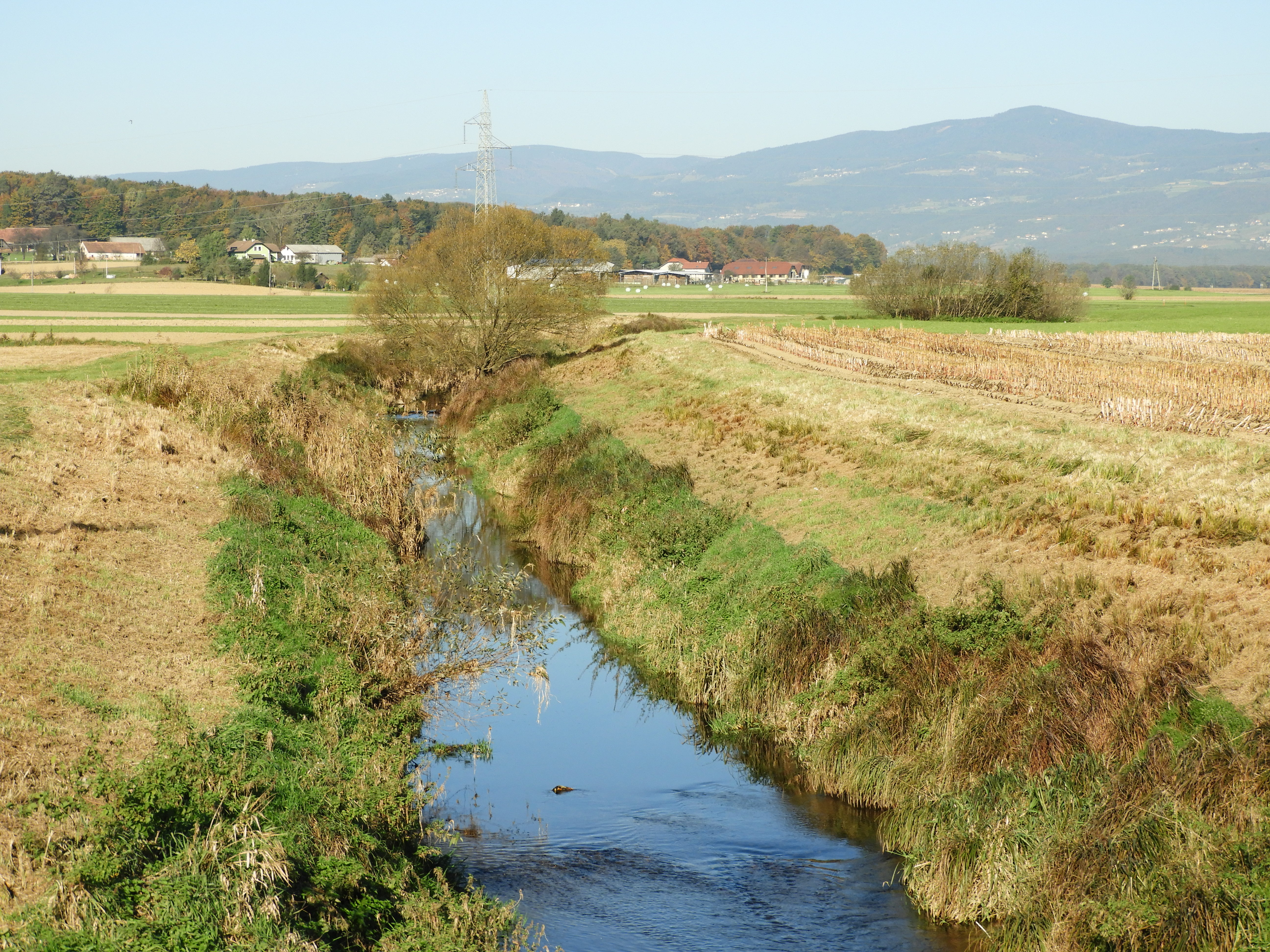 Regulated bed of the small Ložnica River near the village of Farovec